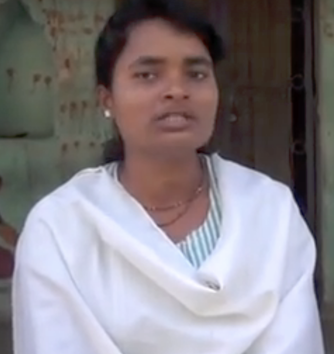 A still from a video featuring Manoram Khatua